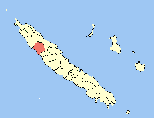 Created map myself.